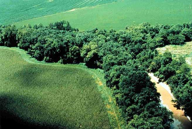 Riparian strip on a Lake Erie tributary. Location is the northeastern corner of Van Buren Township, Putnam County, Ohio, United States, east of the village of Belmore; this is the confluence of Yellow Creek and a tiny unnamed run.